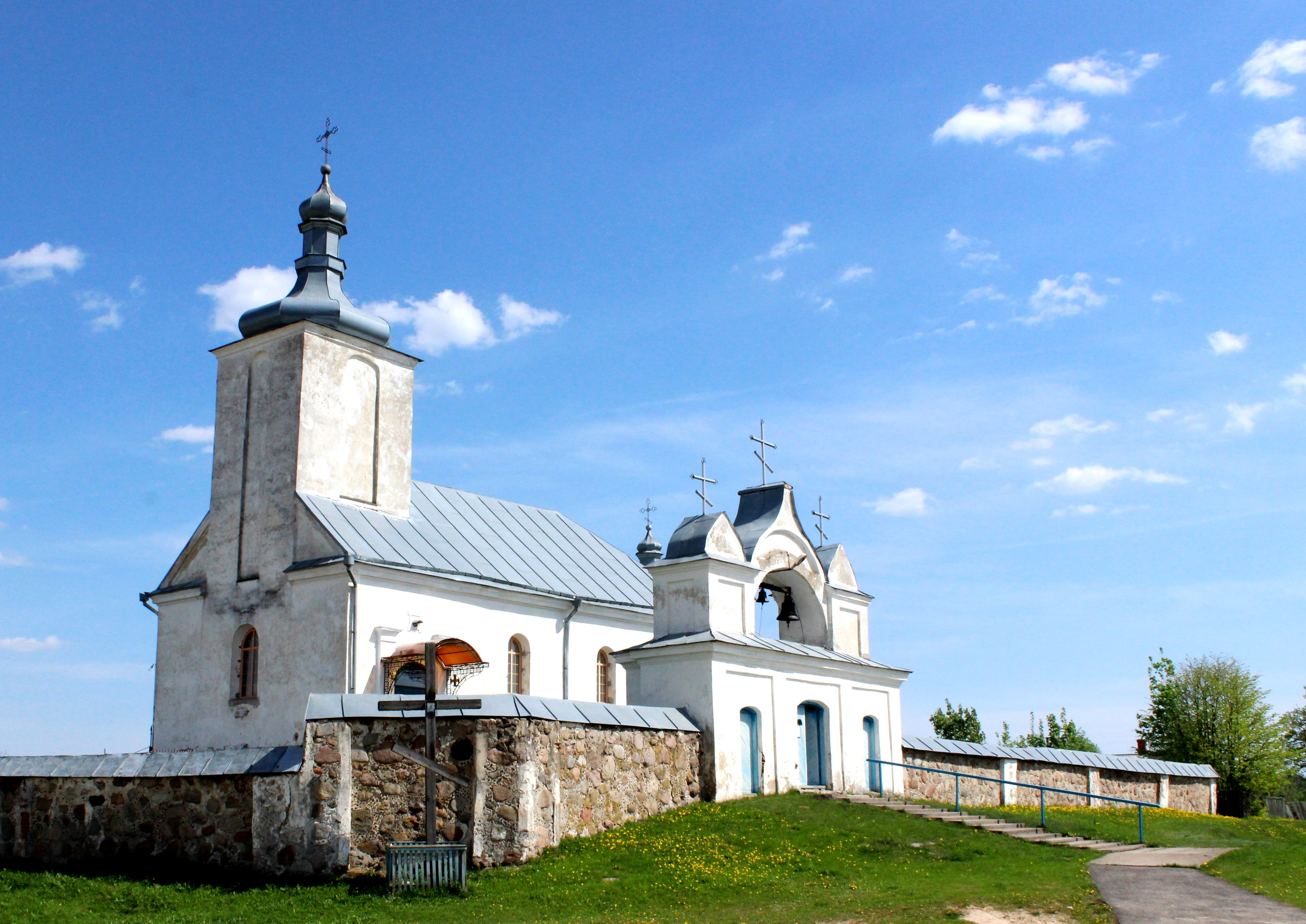 Village Novy Sverzhan, Stowbtsy Raion, Minsk Region. Assumption Church